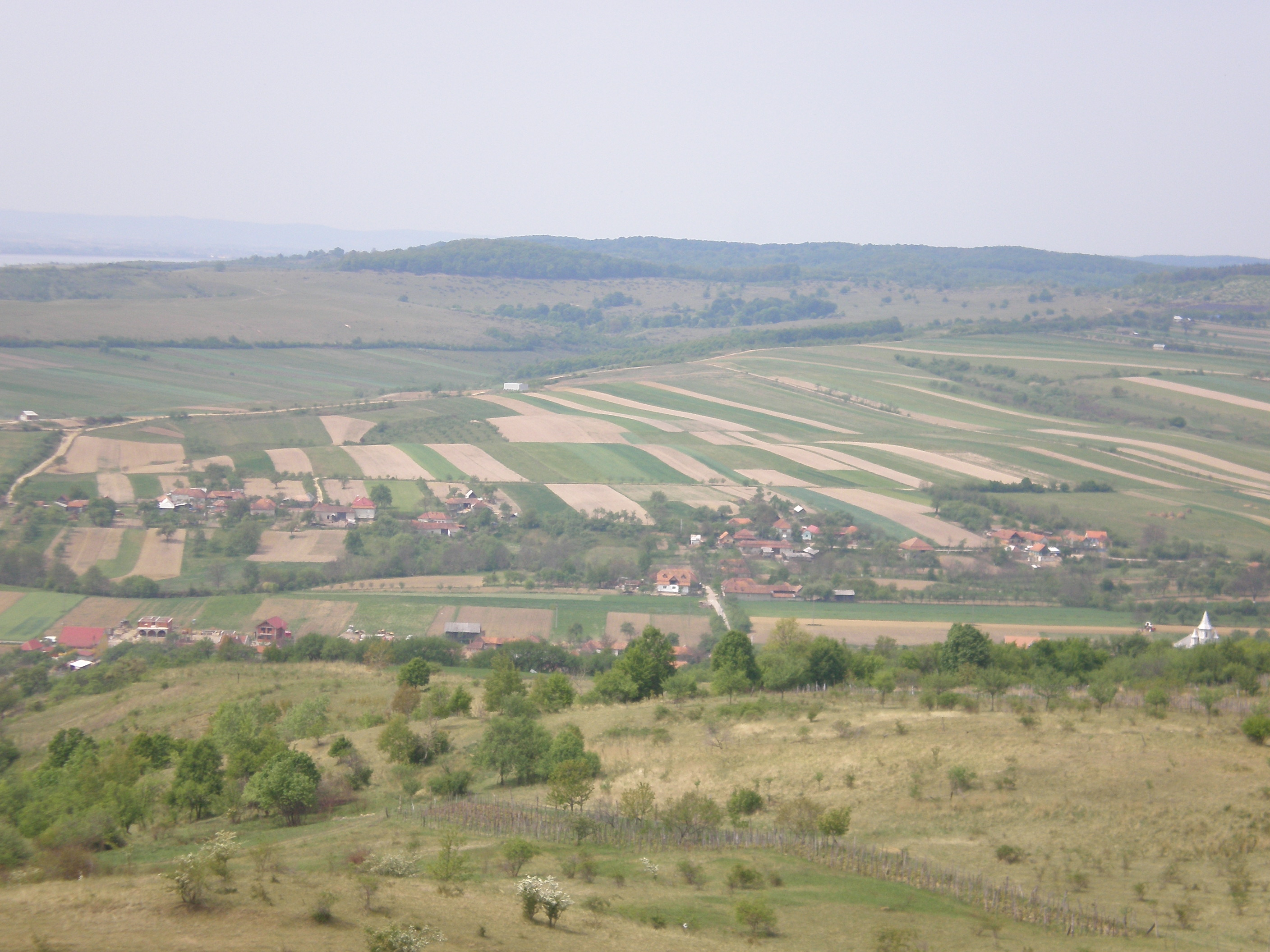 Lugasu de Sus - panorama